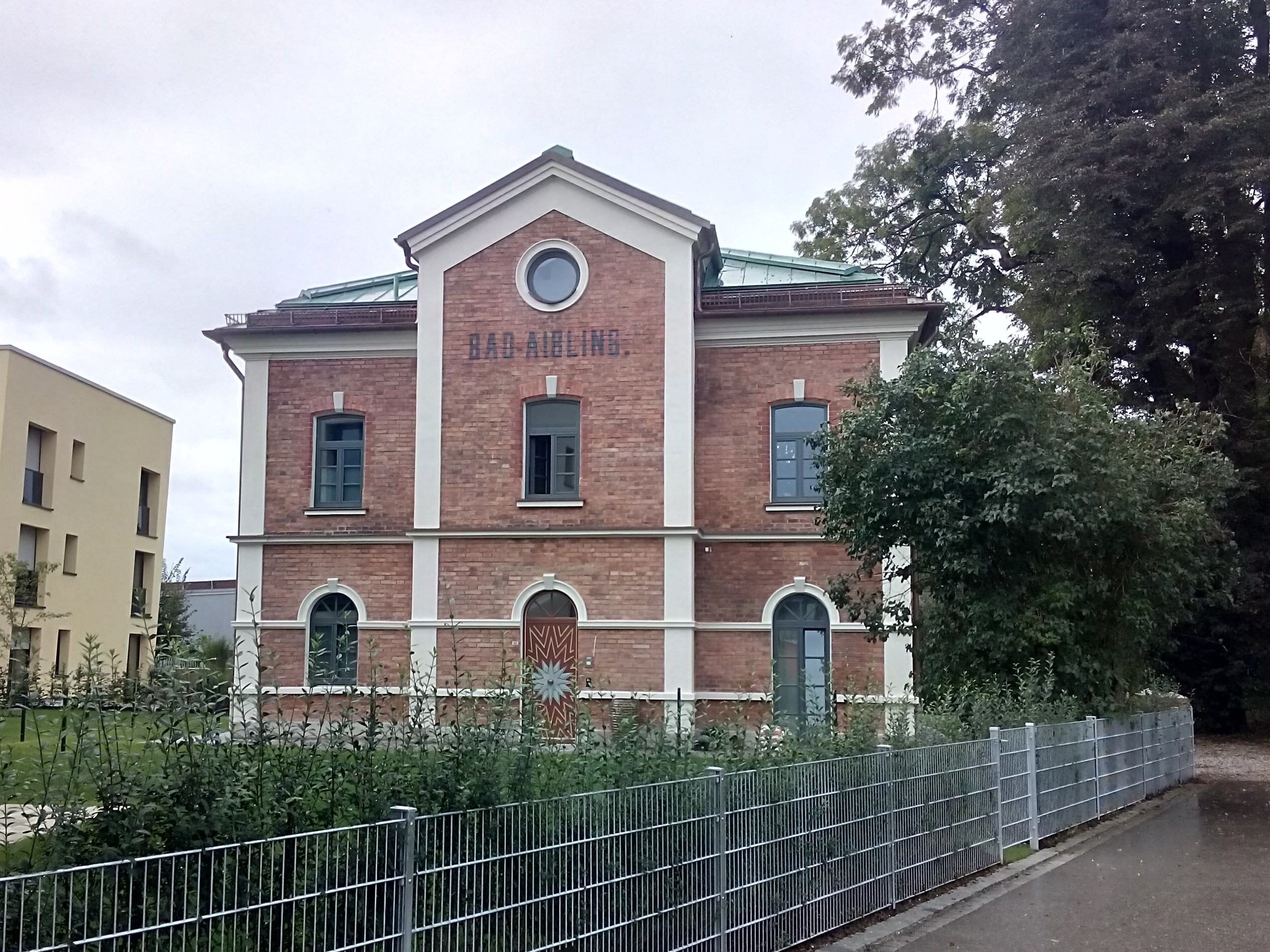 Station in Bad Aibling, Bavaria, of local railway line to Feilenbach, Bavaria.